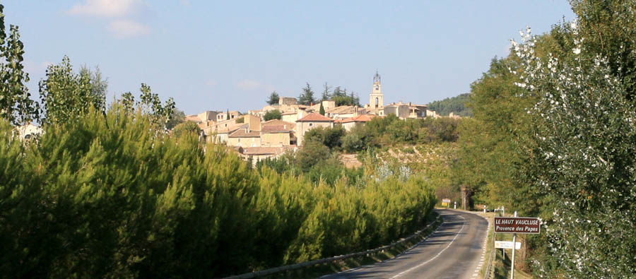 the village of Visan (Vaucluse, France)